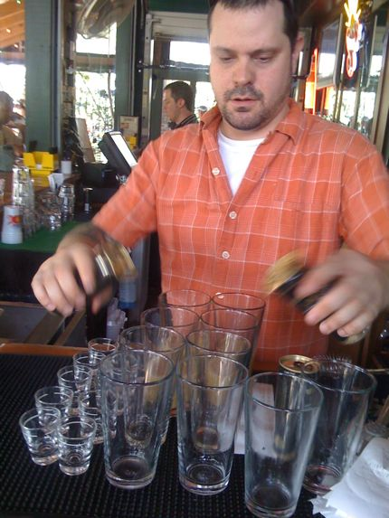 Bartender preparing Whynatte Bombs